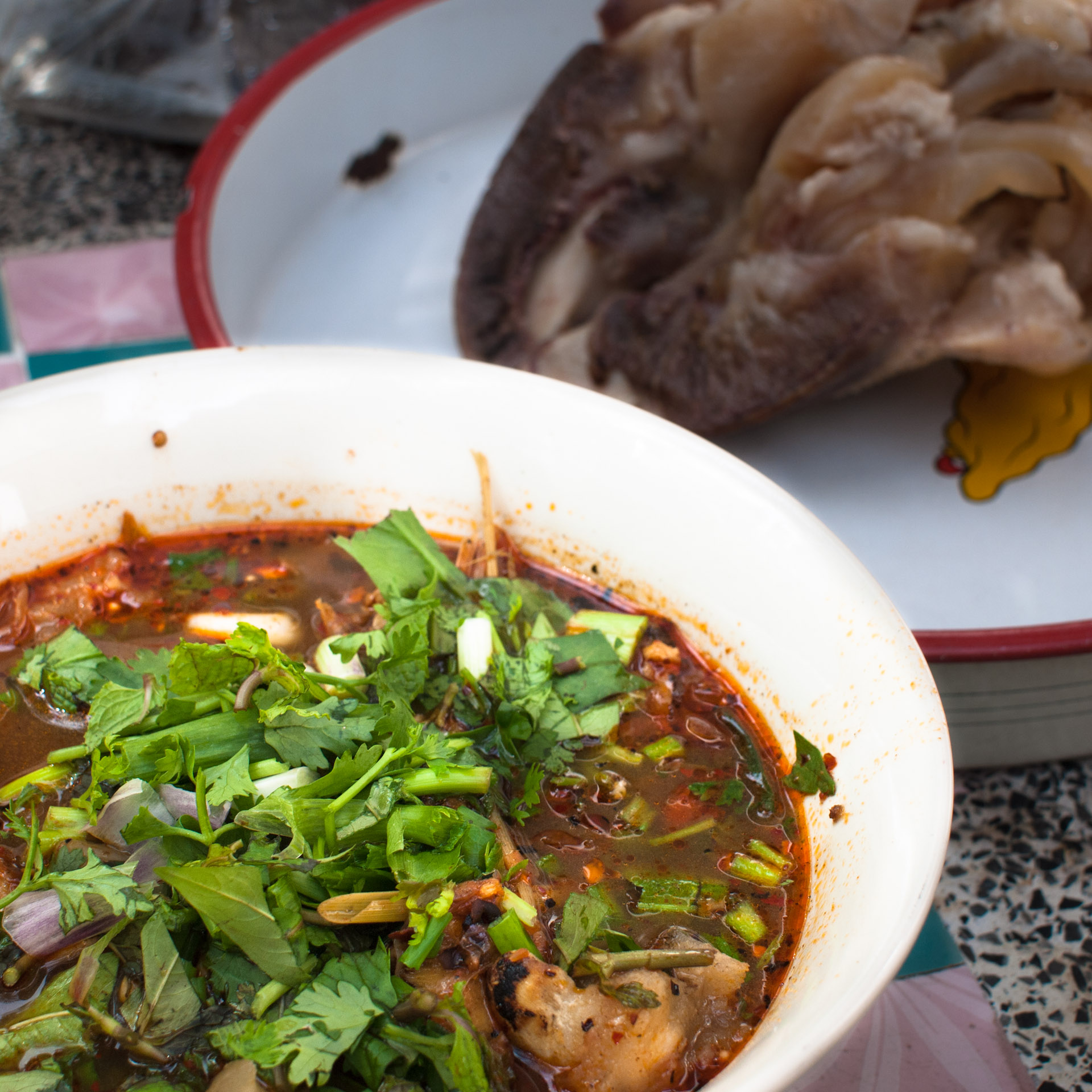 Yam tin khwai (Thai script: ยำตีนควาย) is a spicy and sour Northern Thai soup made with the hoof of a water buffalo. The roughly chopped tendons and skin (the hoof does not contain much, if any, meat) are added in to the soup after cooking the whole hoof in the broth.